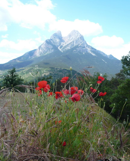 Papaver rhoeas in Saldes, davant del Pedraforca, Berguedà, Catalunya